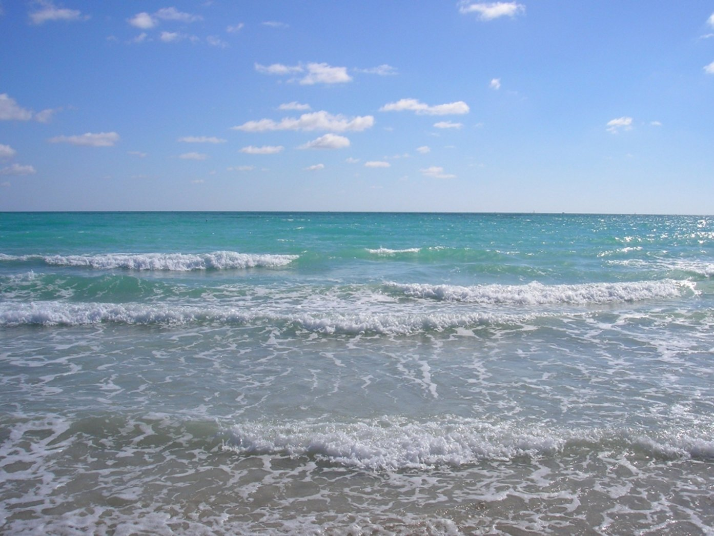 South Beach, near Government Cut — Miami Beach. Picture taken by myself.